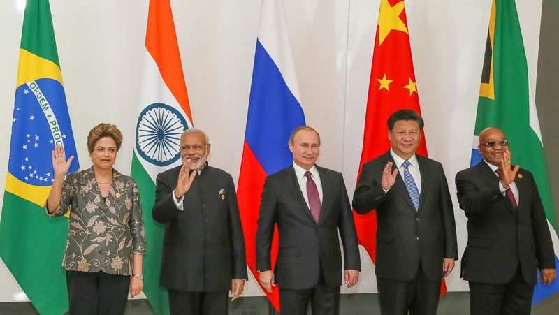 Informal meeting of BRICS leaders before the 2015 G-20 Antalya summit